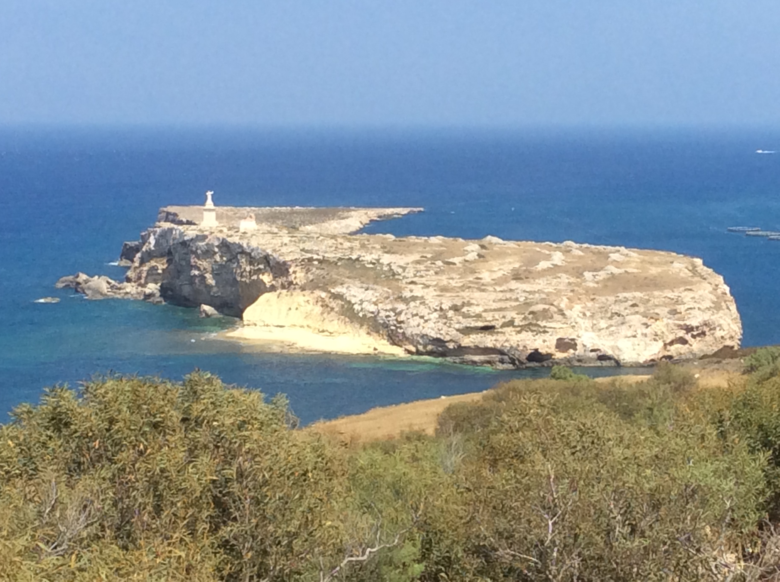 St Paul's Island As seen from Mellieha